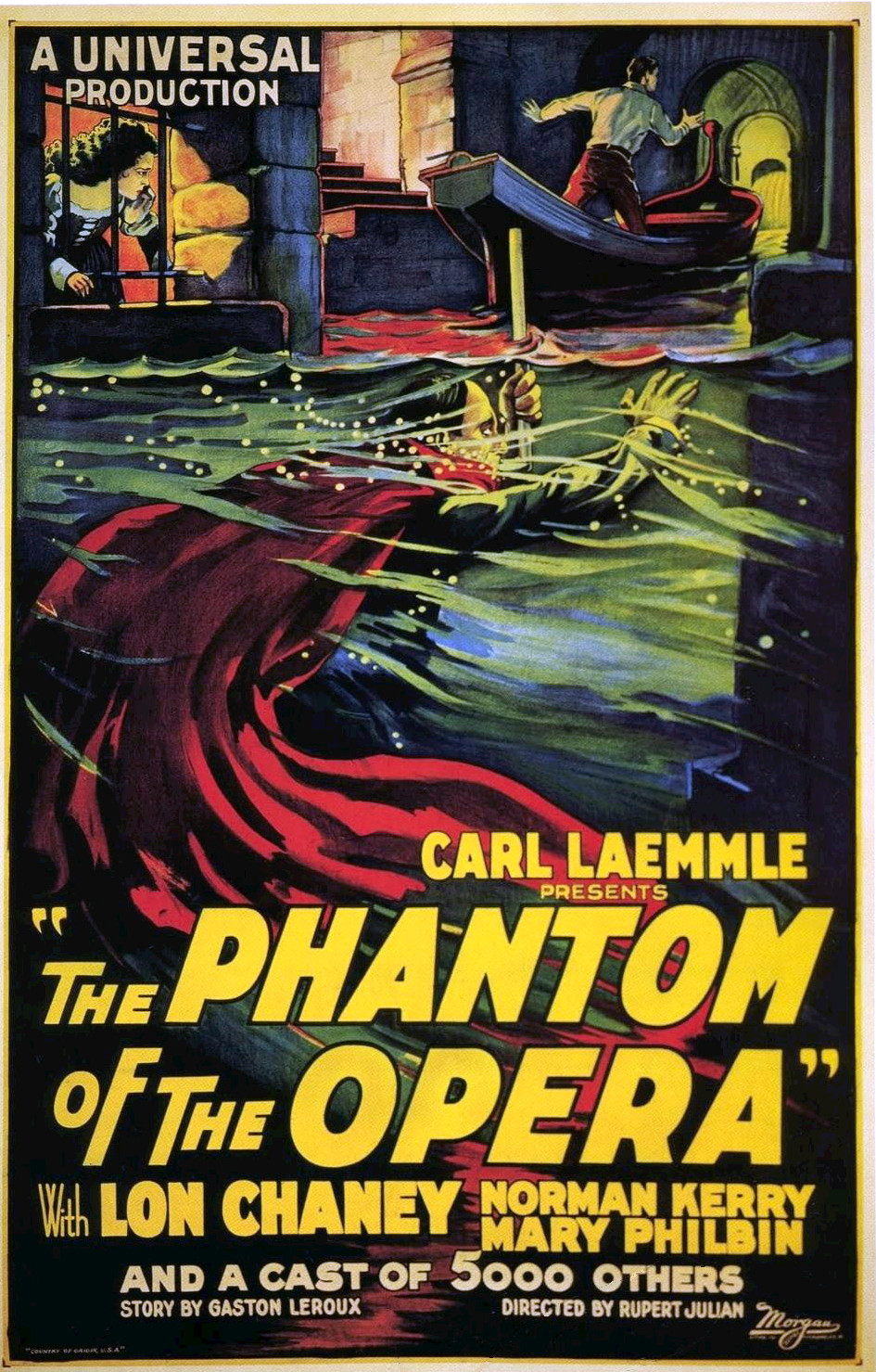 Poster for the 1925 film The Phantom of the Opera. There are no copyright marks shown on the poster. The writing at lower left is "Country of Origin USA"; Morgan appears to be the printing company who produced the poster for Universal.